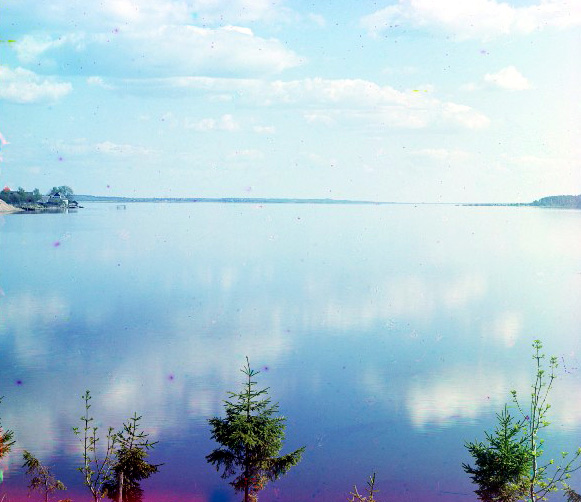 Sterzh Lake in Tver region of Russia